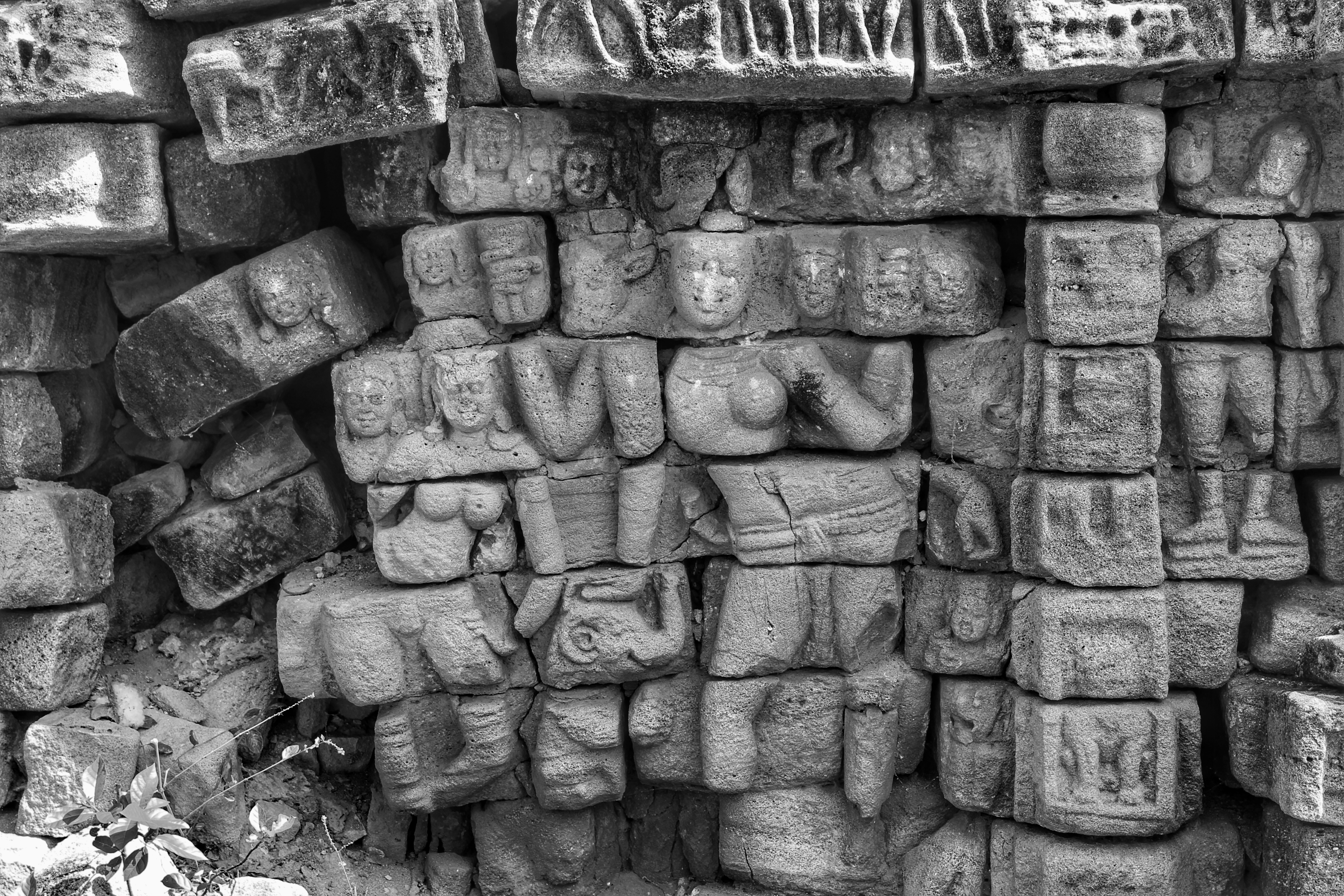 Devunigutta Temple In Kottur Village, Mulugu Mandal, Jayashankar Bhupalapally District, Telangana State